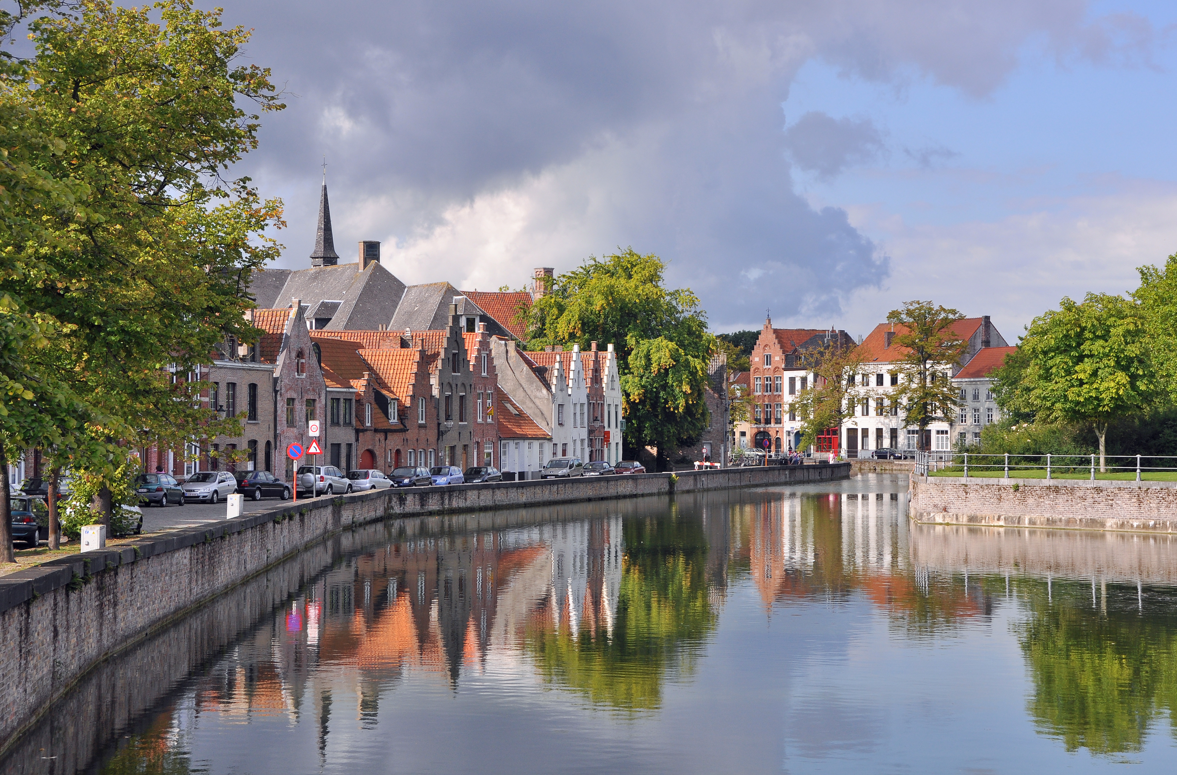 Bruges (Belgium): the Lange Rei.